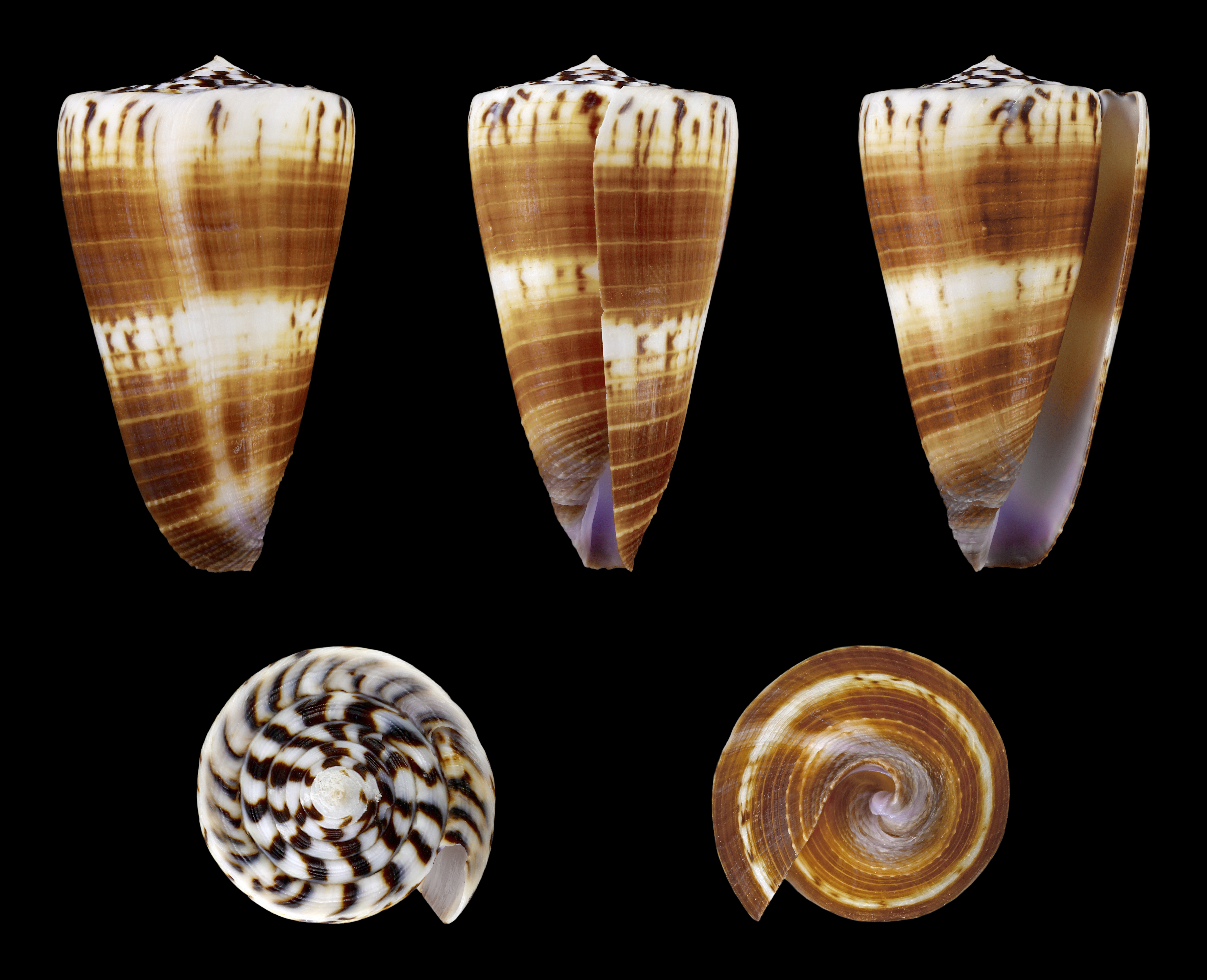 Planorbis Cone; Length 5.4 cm; Originating from the Philippines; Shell of own collection, therefore not geocoded. Dorsal, lateral (right side), ventral, back, and front view.